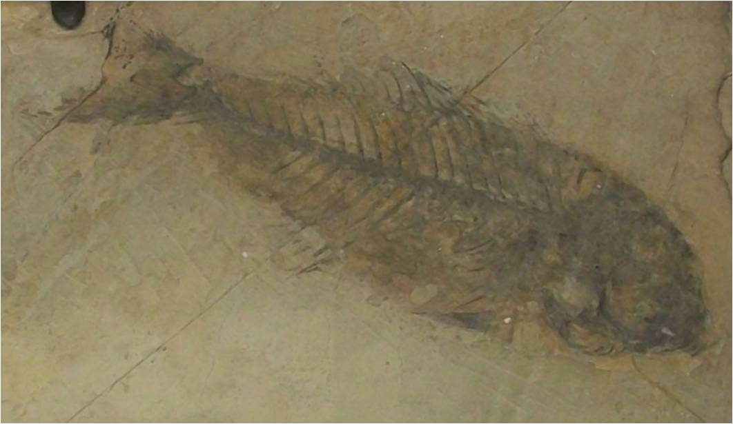 Fossil of an extinct species of the perciform fish Serranus, S. occipitalis, at the Amherst Museum of Natural History.